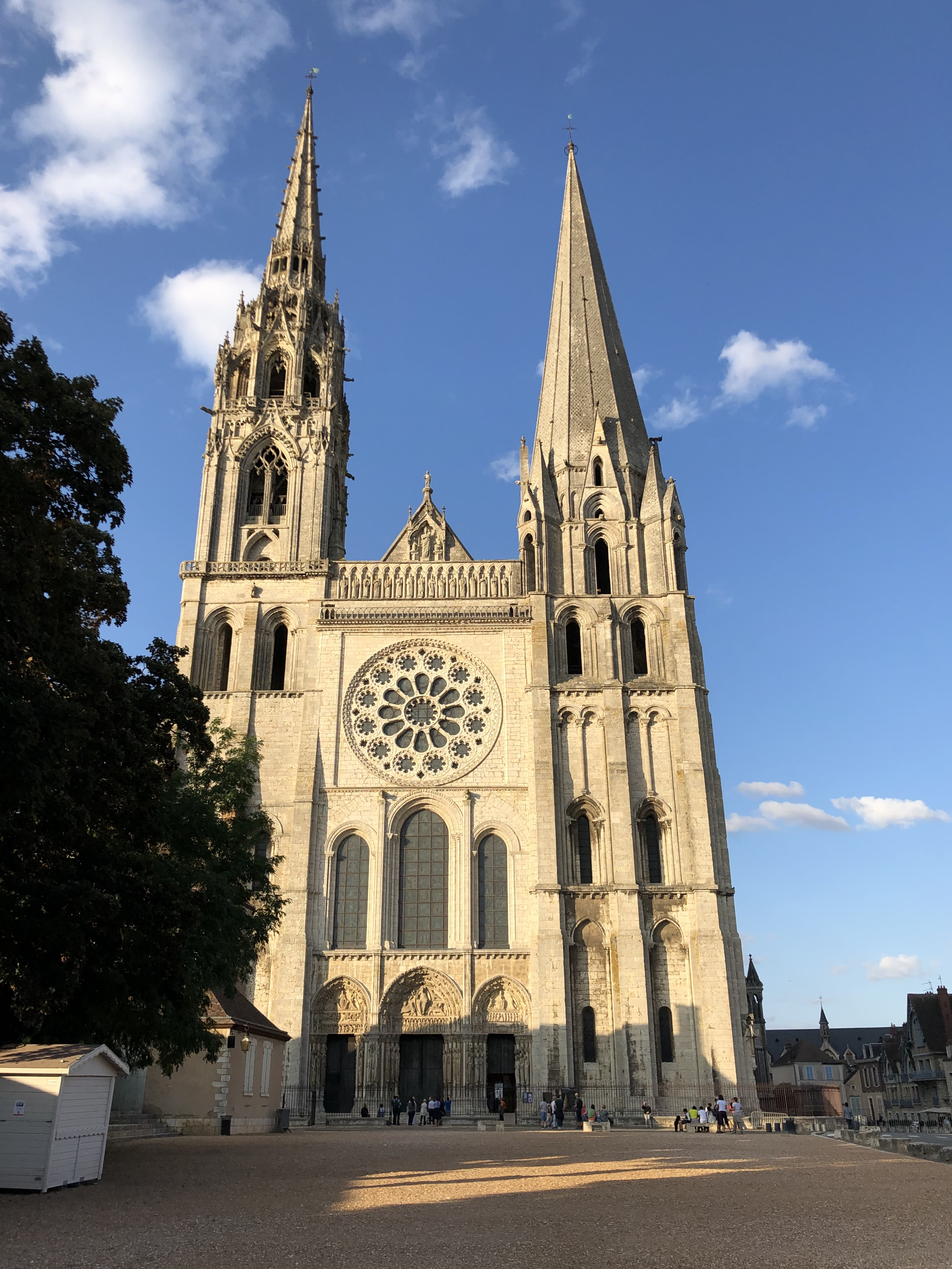 Notre-Dame de Chartes